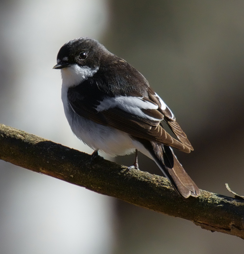 Pied Flycatcher - Ficedula hypoleuca